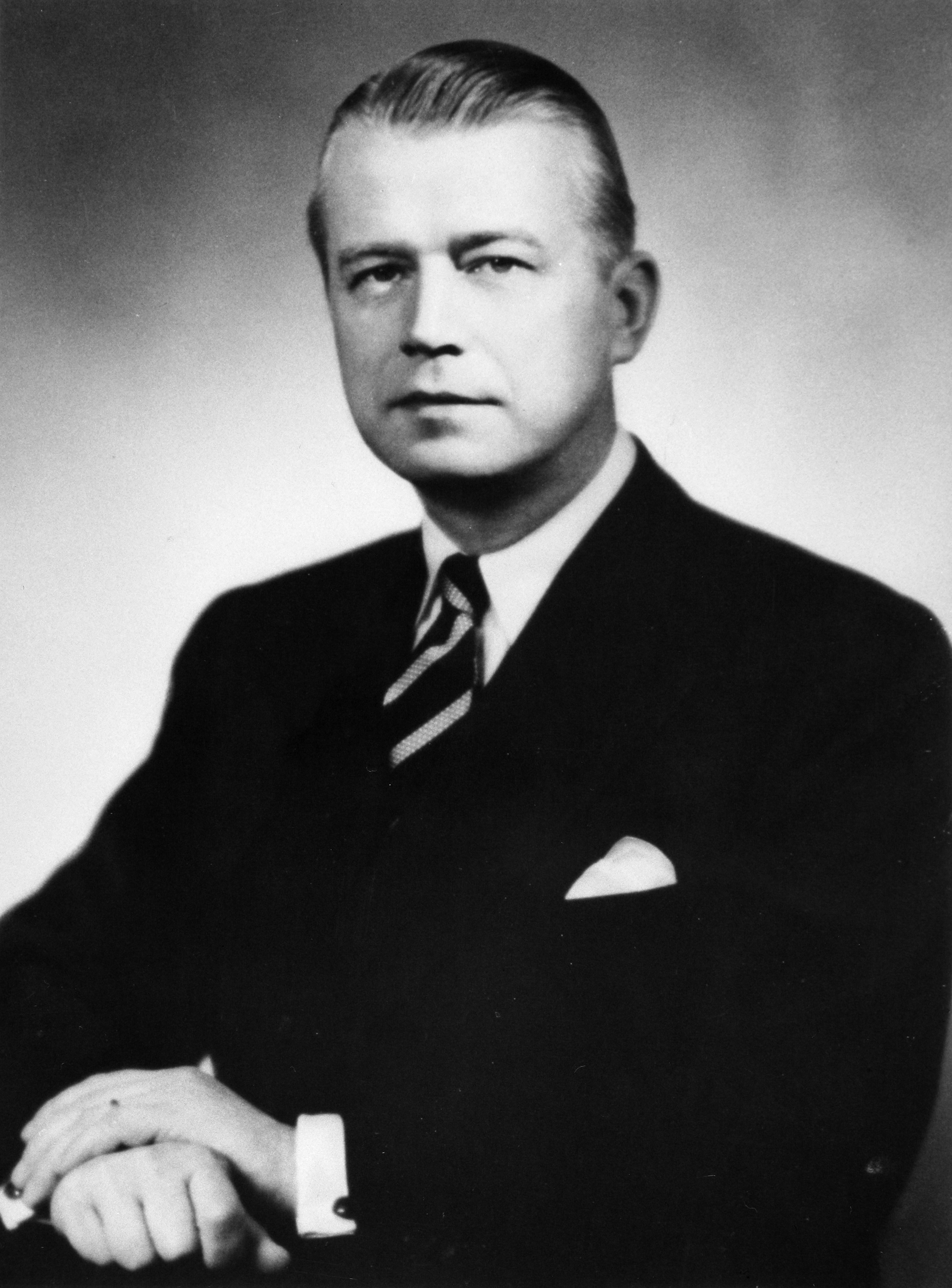 SAS president Per A. Norlin, from 1946 to 1948 and 1951 to 1954